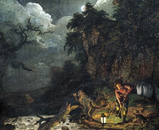 Detail from The Earthstopper on the Banks of the Derwent By Joseph Wright